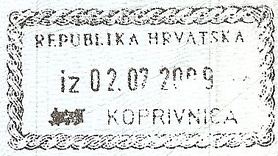 Passport stamp from Koprivnica, Croatia